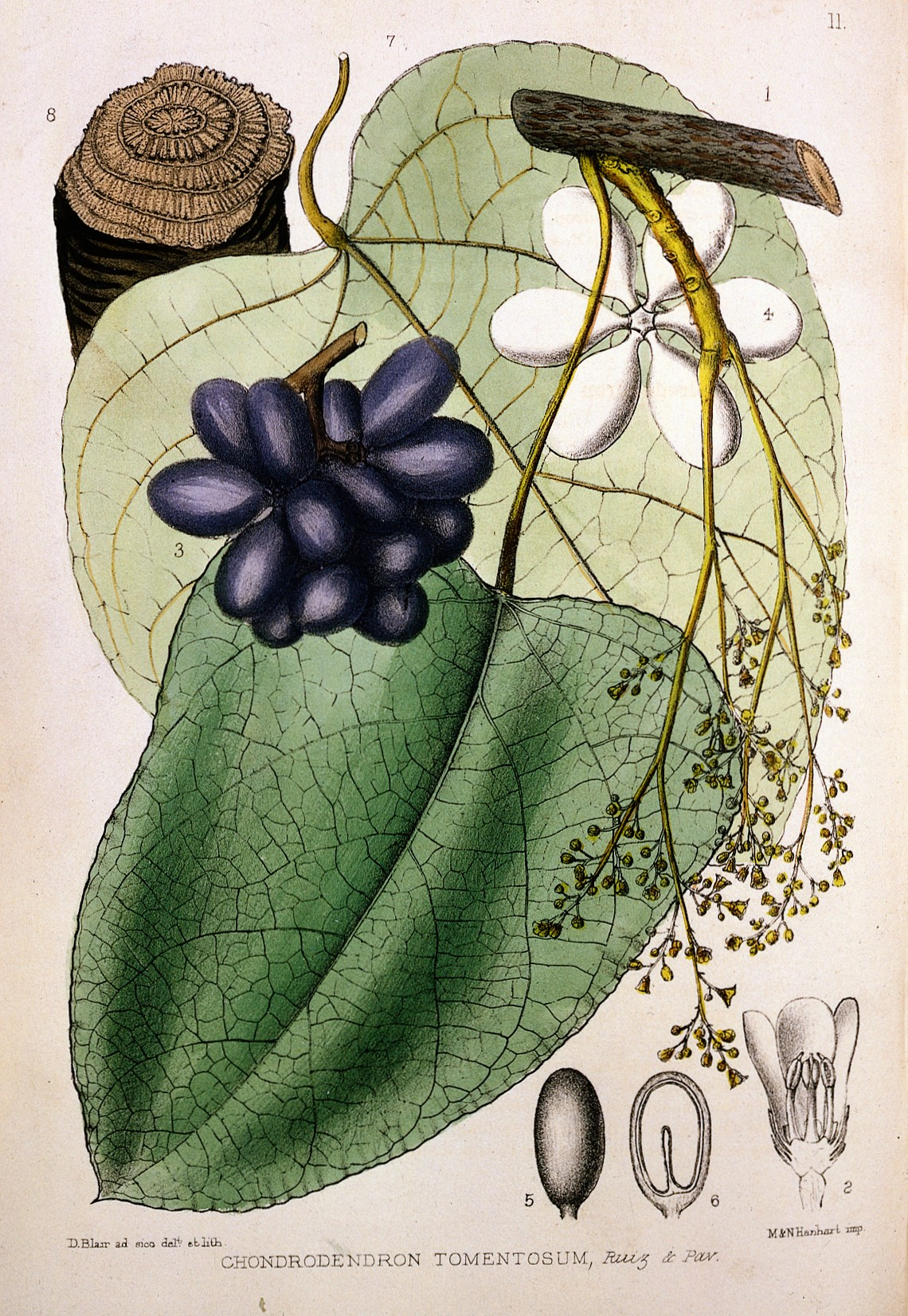 Chondrodendron tomentosum General Collections Keywords: Materia Medica; Robert Bentley; Henry Trimen